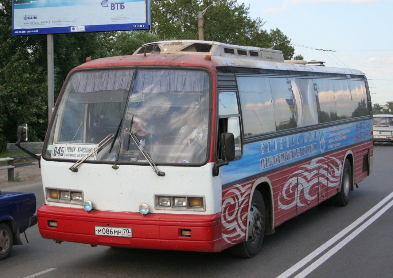 Daewoo BH115 bus in Tomsk, Russia